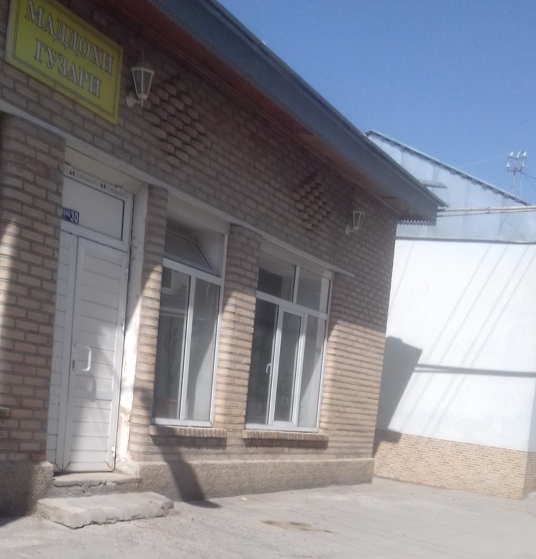 Maddahi guzar (mahallah) in Samarkand, Uzbekistan.